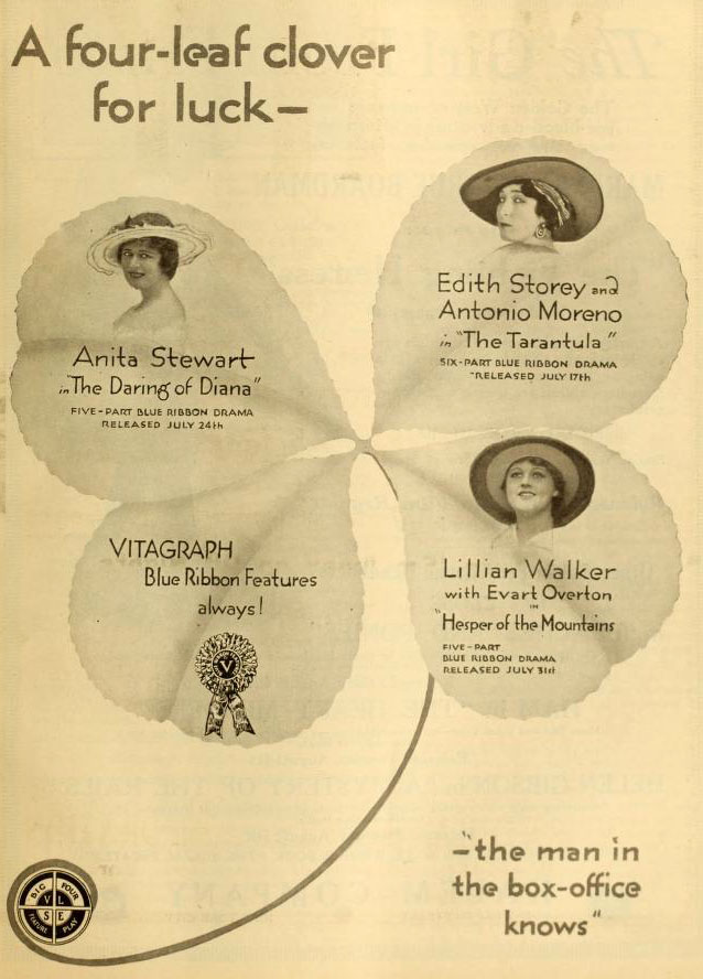 Advertisement in The Moving Picture World promoting three Vitagraph Studio films and actresses.